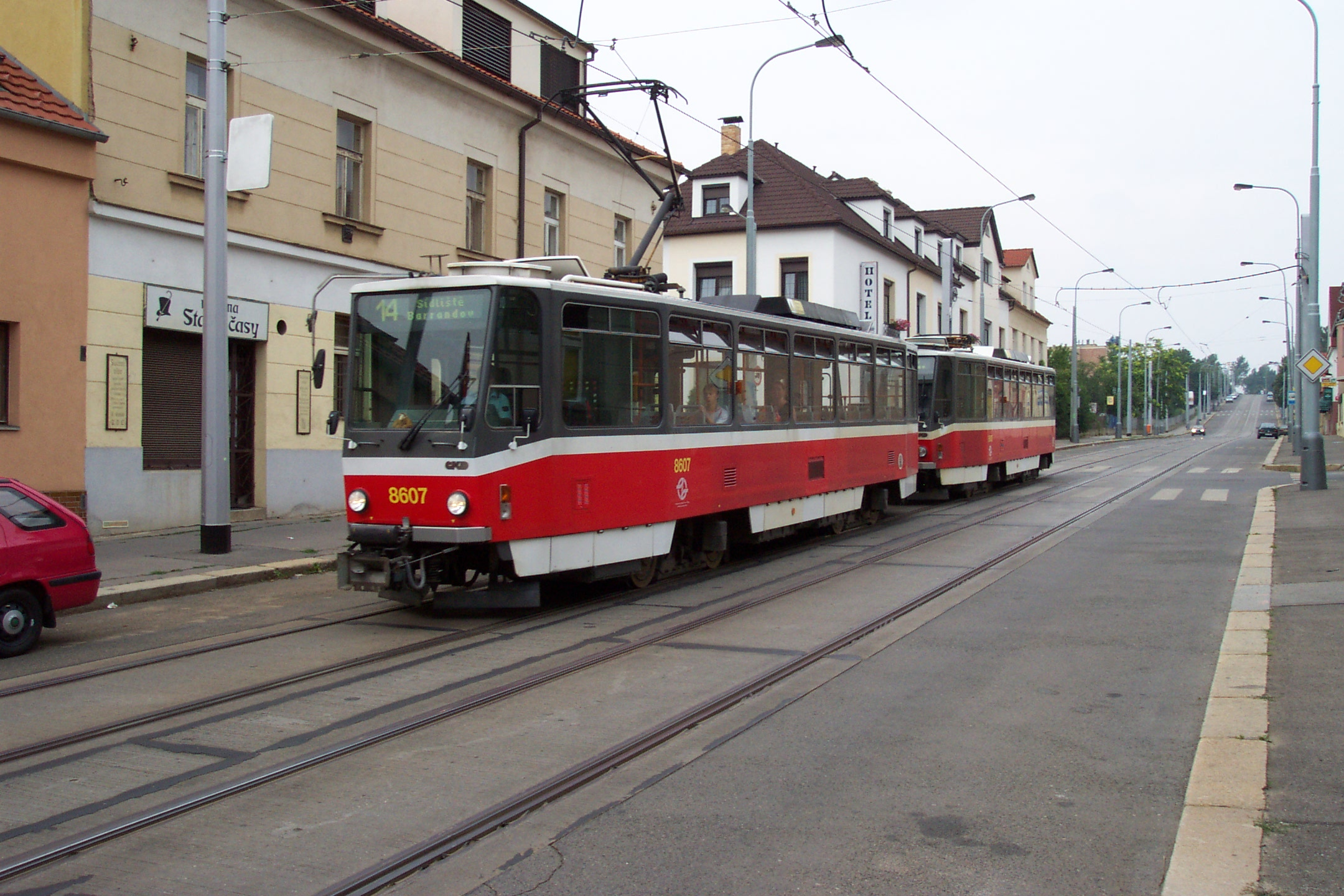 Tram model T6A5 in Prague-Kobylisy, CZ